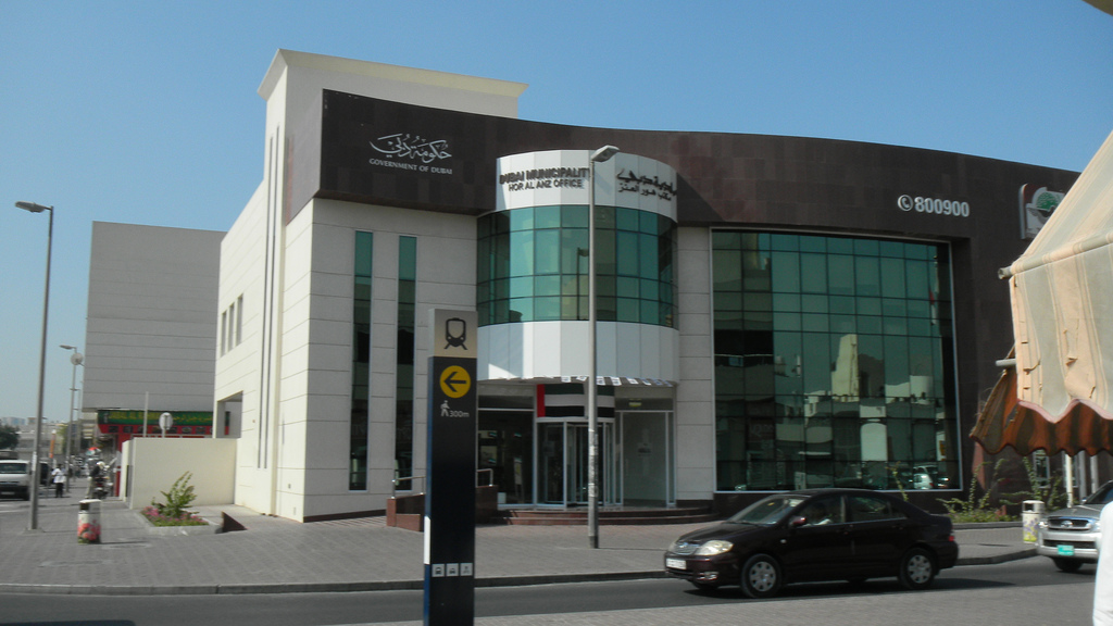 Wato Khan , Hor Al Anz Street, Deira, Dubai